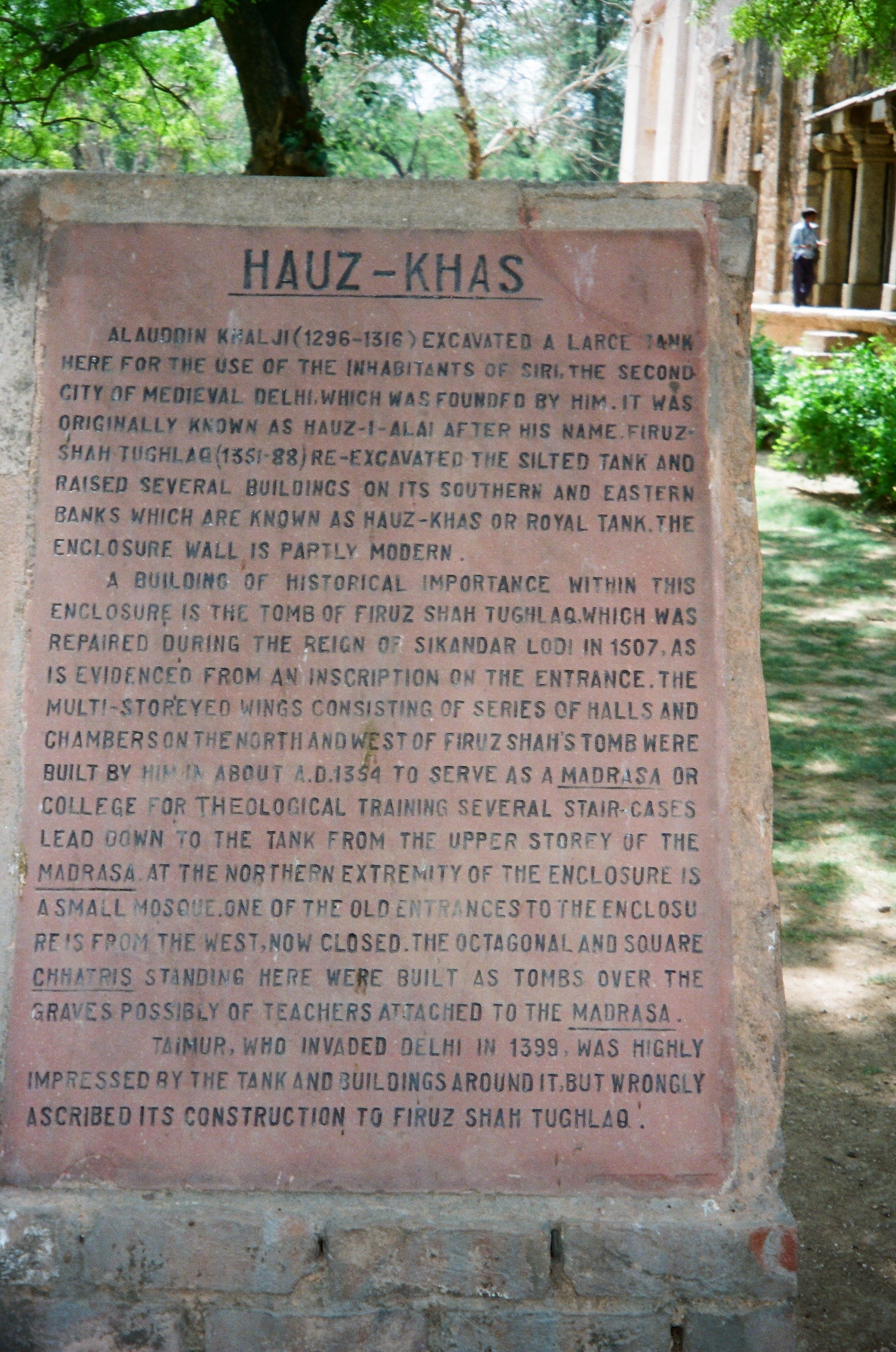 A Plaque at the entrance to House Khas complex in Delhi